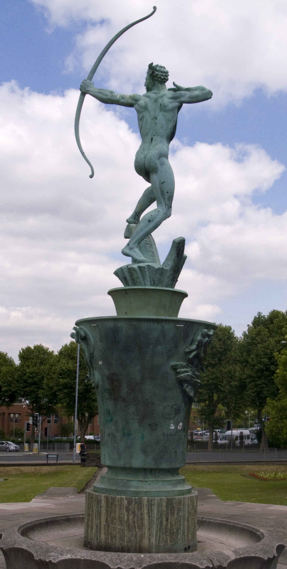 Bronze statue Apollo by William Bloye, 1939, in Coronation Gardens, Ednam Road, Dudley, West Midlands, England.